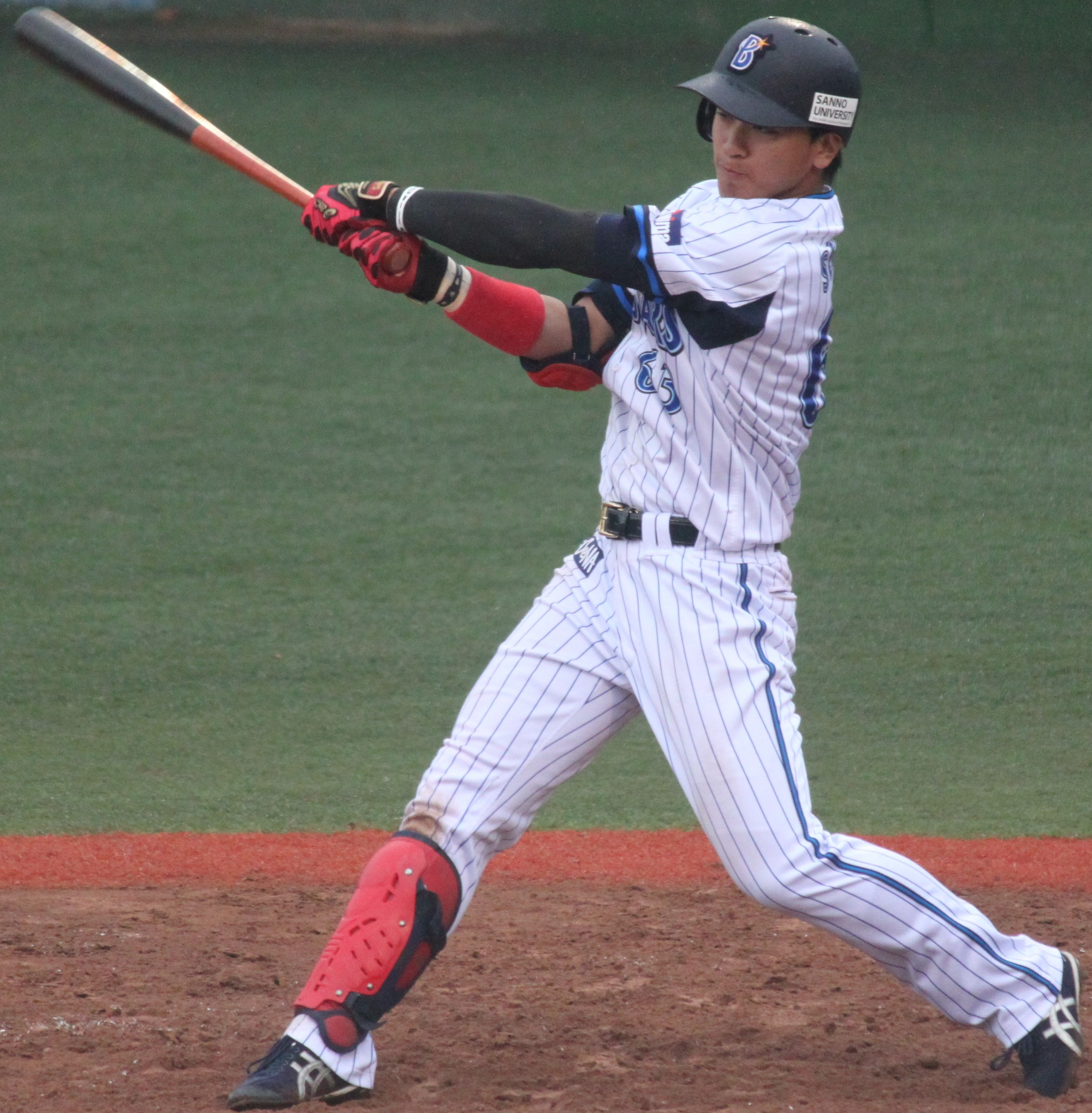 Taiki Sekine, outfielder of the Yokohama DeNA BayStars, at Yokosuka Stadium.